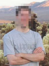 This is a photograph of myself, taken by myself. The face and shirt logo were obscured with Photoshop's Mosaic filter.